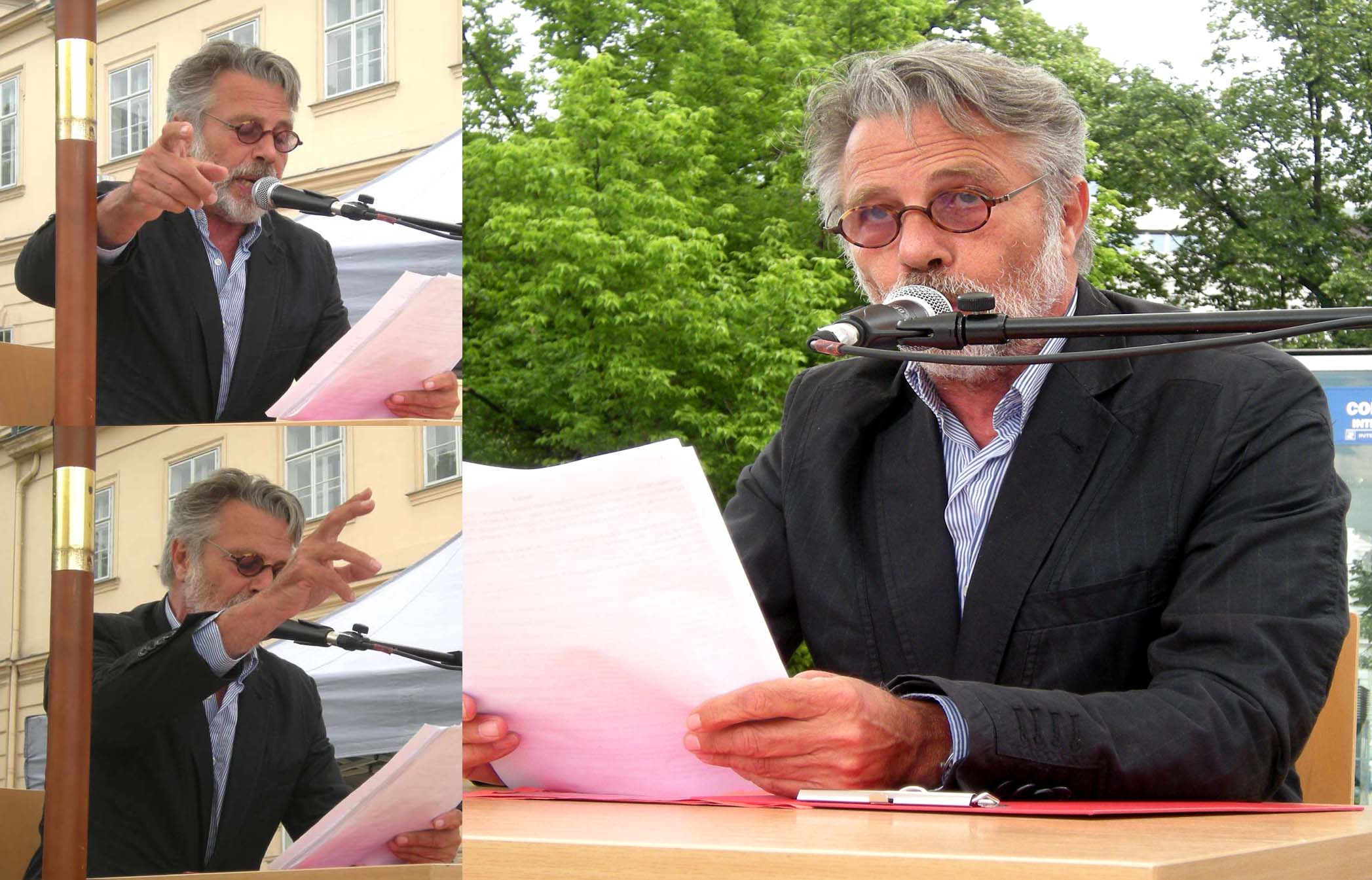 On occasion of a Category:Wiener Tafel event, some Austrian actors&singer-songwriters performed "open air", although weather was "somewhat less than 'welcoming'". The event happened in front of Vienna's MQ.